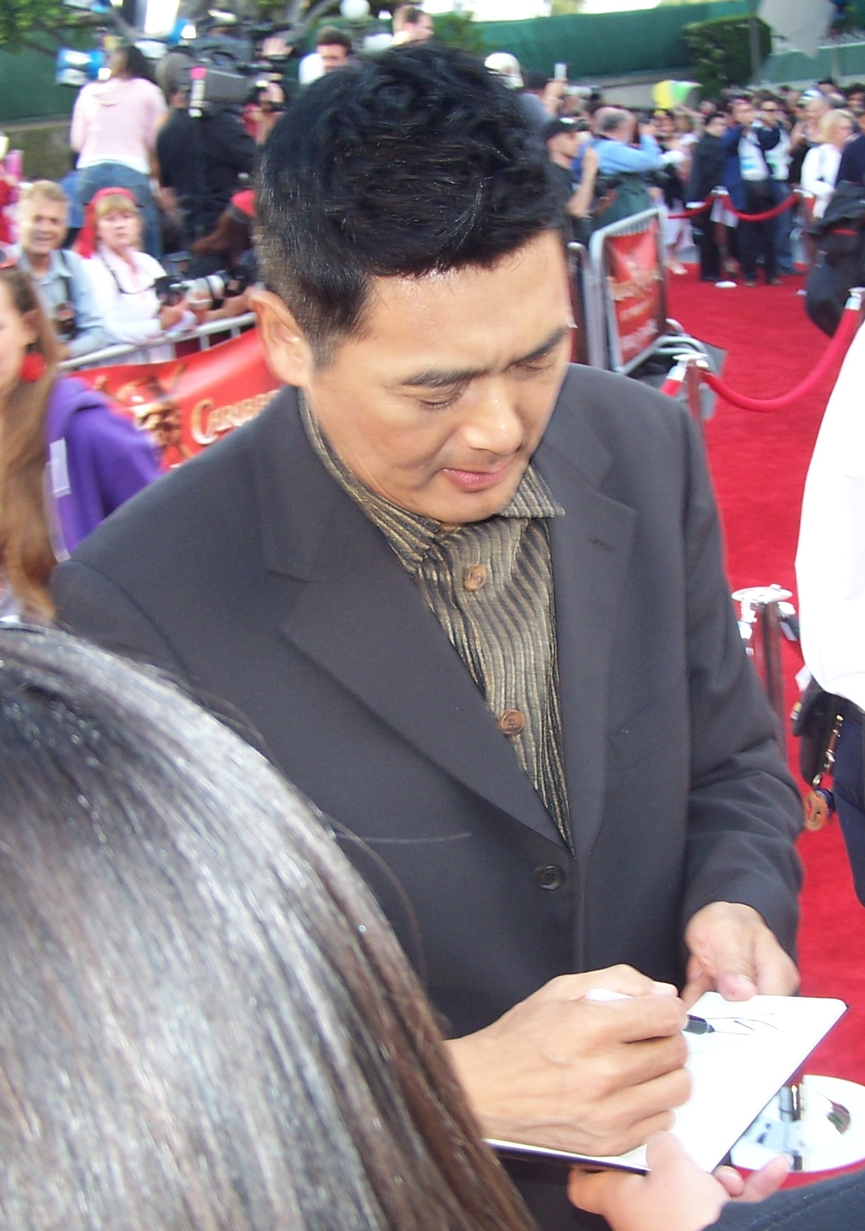 Chow Yun Fat was VERY diplomatic. And his birthday was the day before.